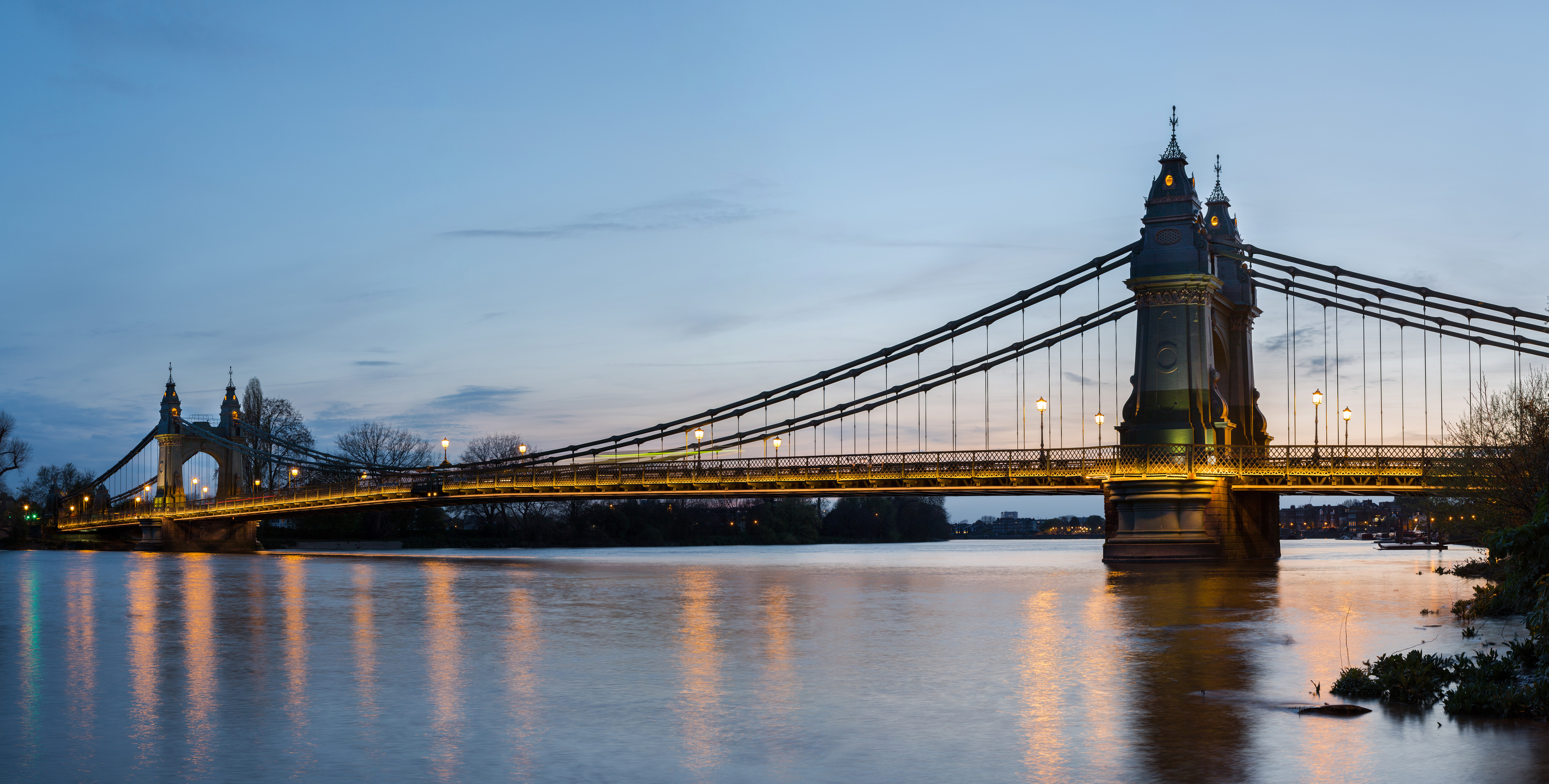 Hammersmith Bridge in London, England, UK, as viewed from the north-eastern side in Hammersmith.